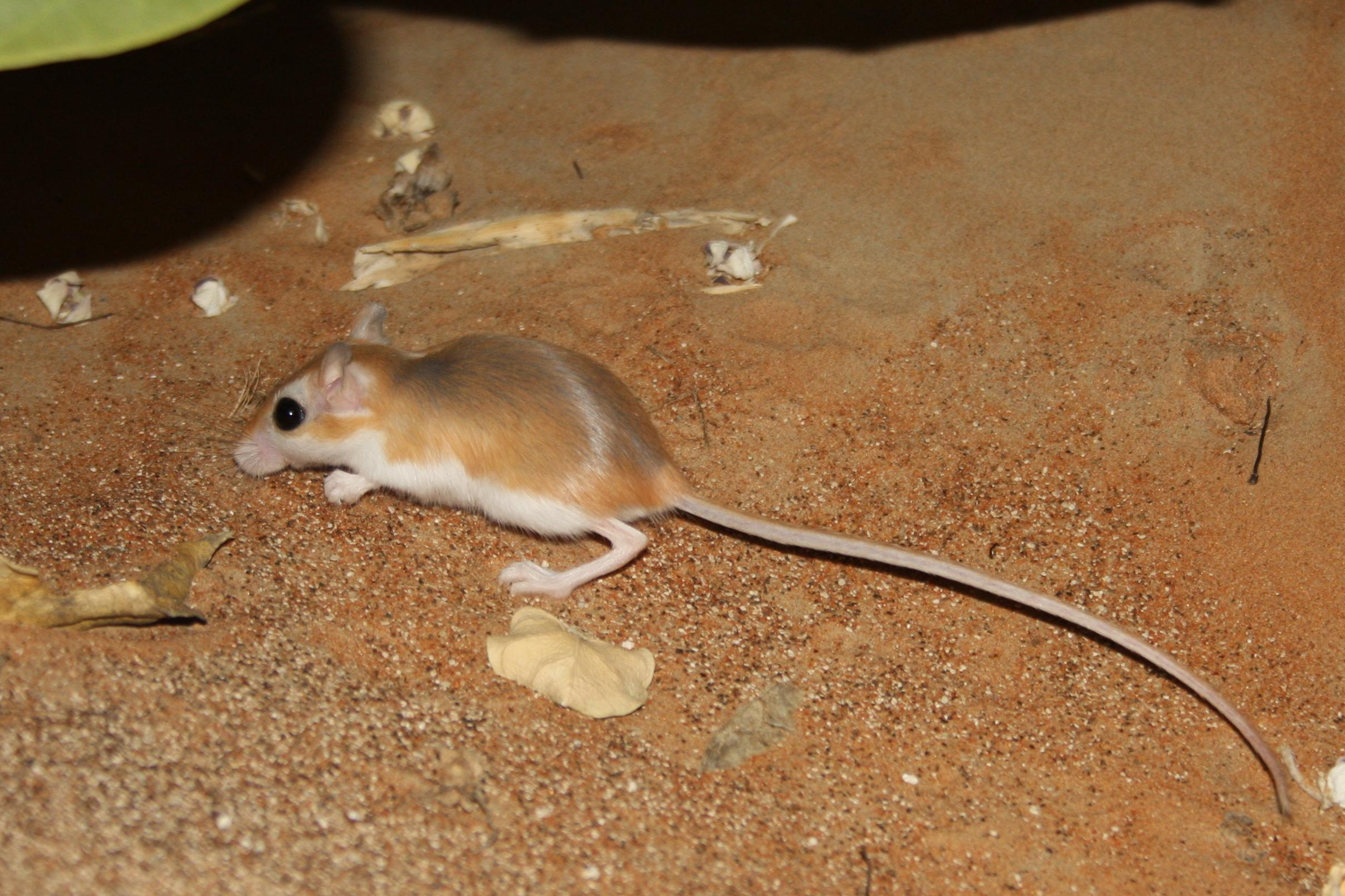 Cheesman's Gerbil photographed at Abaad Woods, near Al Ain, Abu Dhabi, UAE.